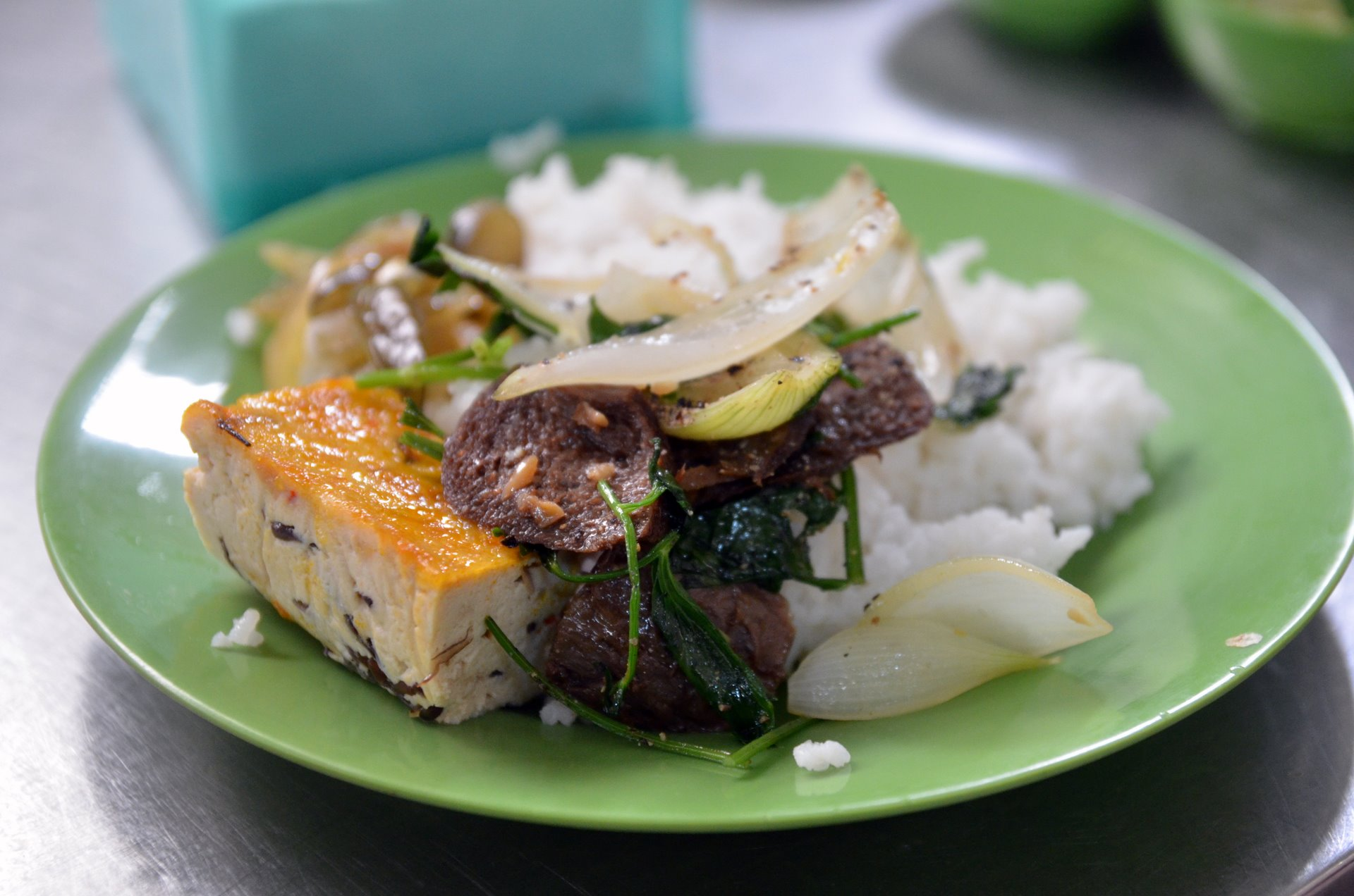 Vegetarian food in a small local Buddhist restaurant in Ho Chi Minh City. Everything that looks like meat in this image, is actually made from meat substitute, presumably tofu. The dishes are stir-fried sliced vegetarian "sausage" and a large slice of vegetarian "fish" soufflé served with rice.